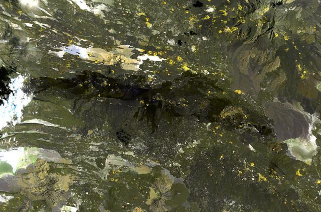 The dark-colored lava flows extending diagonally across the center of this Landsat image were erupted from pyroclastic cones of Manda-Inakir volcano. These NNW-trending fissure vents and cones are located along the Ethiopia-Djibouti border and represent an uplifted mid-ocean ridge spreading center now exposed above sea level. An eruption in 1928 or 1929 at the SE end of the Manda-Inakir rift near the town of Korili (in Djibouti) produced the Kammourta cinder cone and a lava flow.